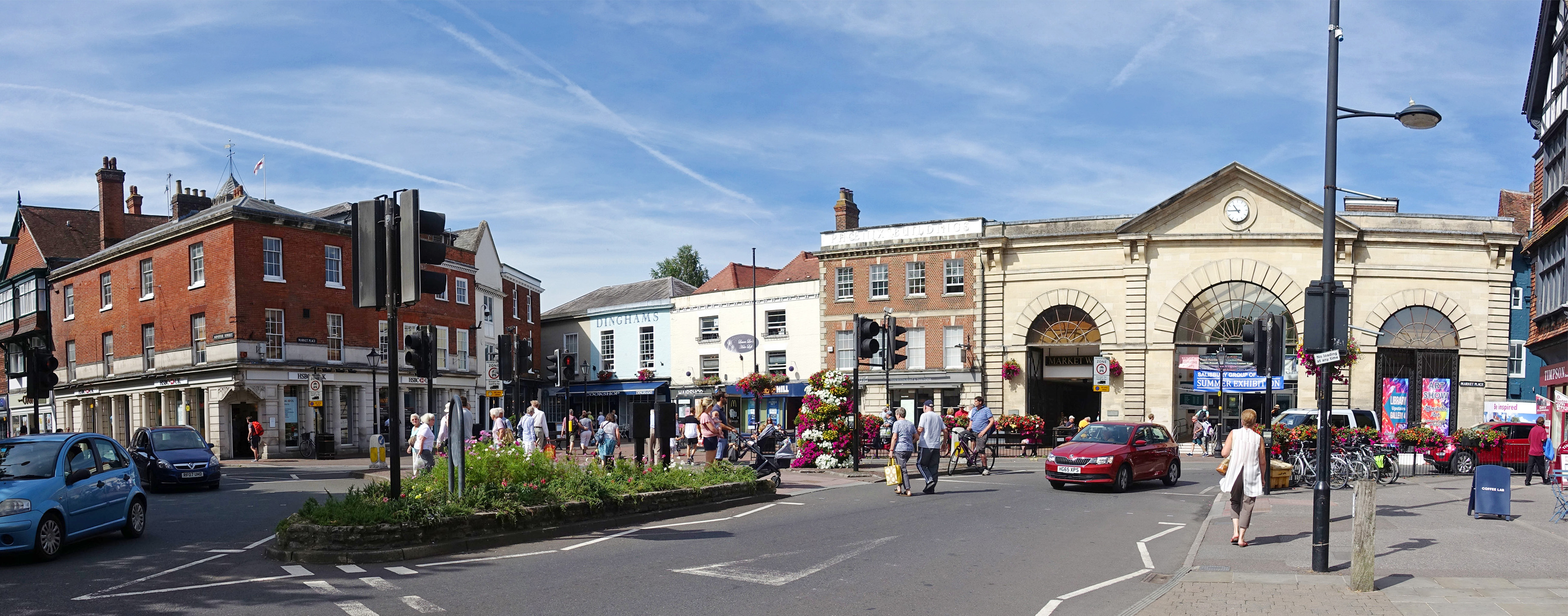 Centre of Salisbury.